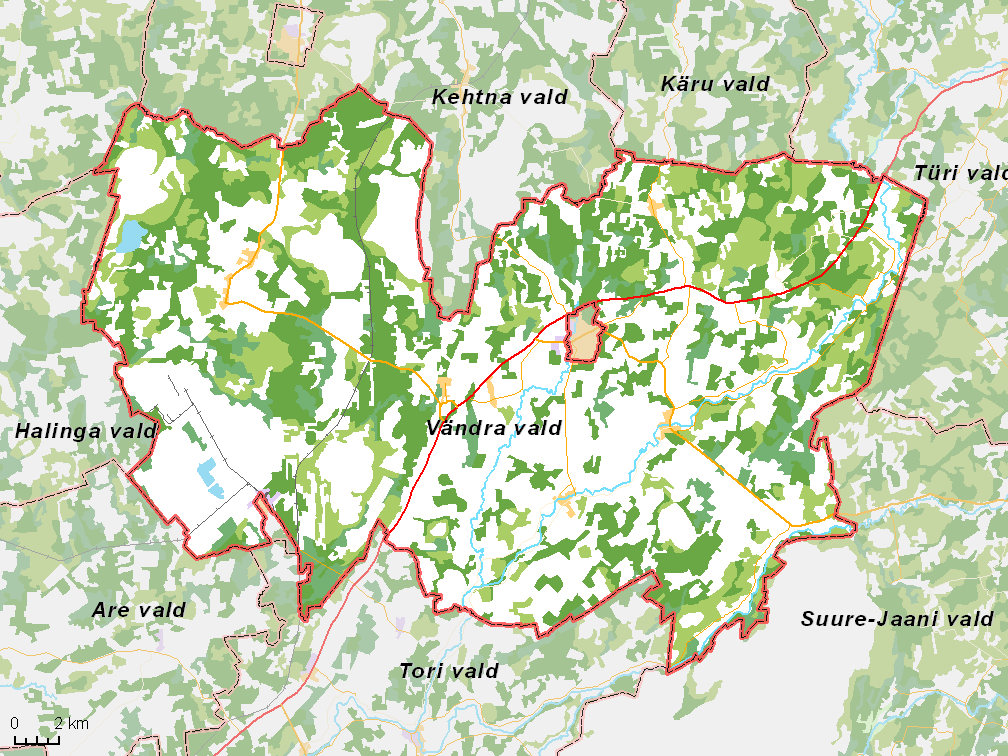 Map of municipality in Estonia